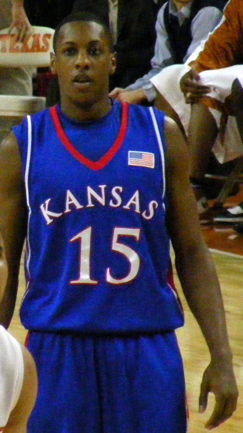 Former Kansas Jayhawks guard Mario Chalmers during a game against the Texas Longhorns on February 11, 2008.